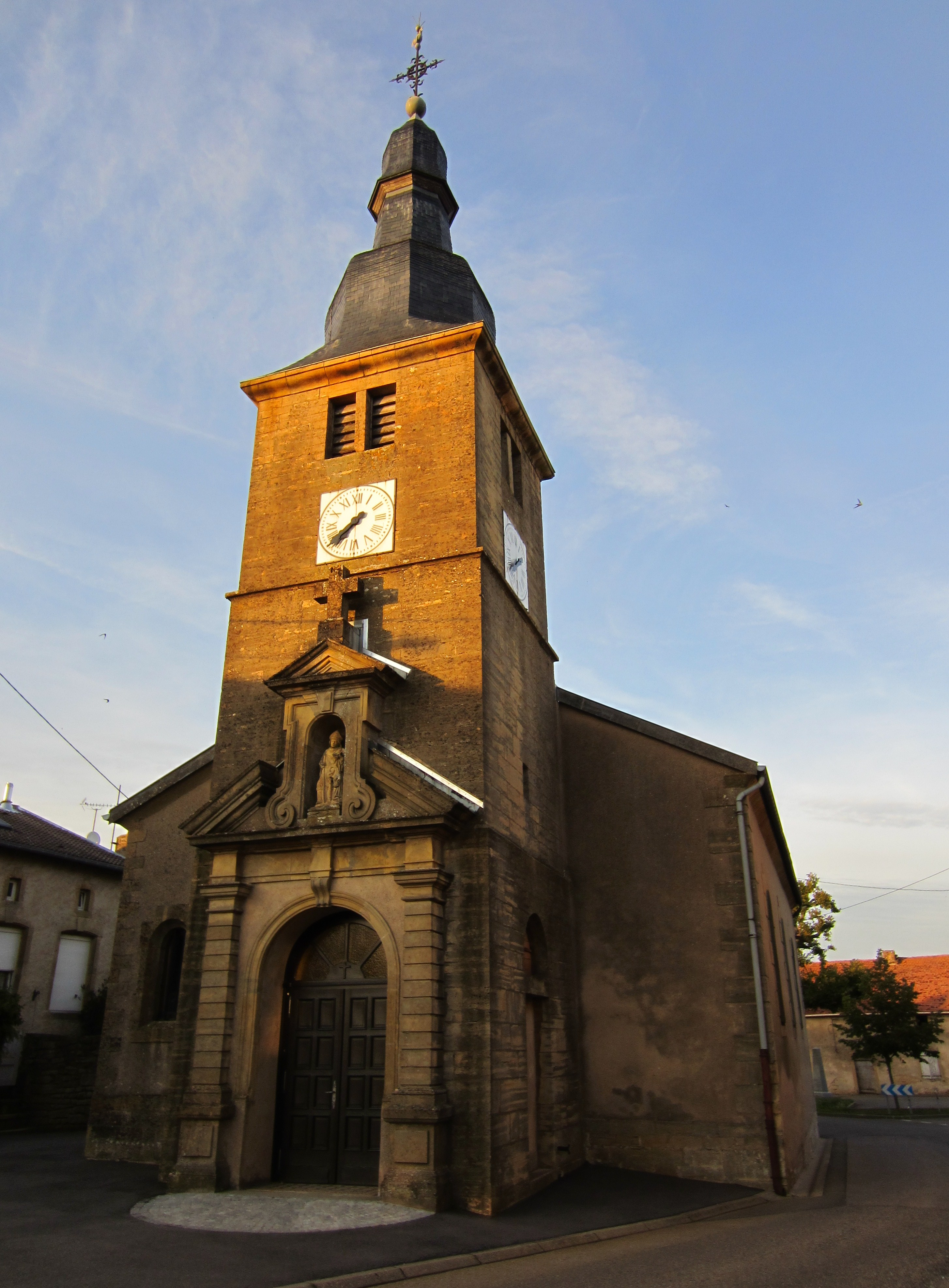 Description eglise de Lommerange Date31 August 2011Sourcemon appareil photoAuthorAimelaimePermission (Reusing this file) eglise de Lommerange